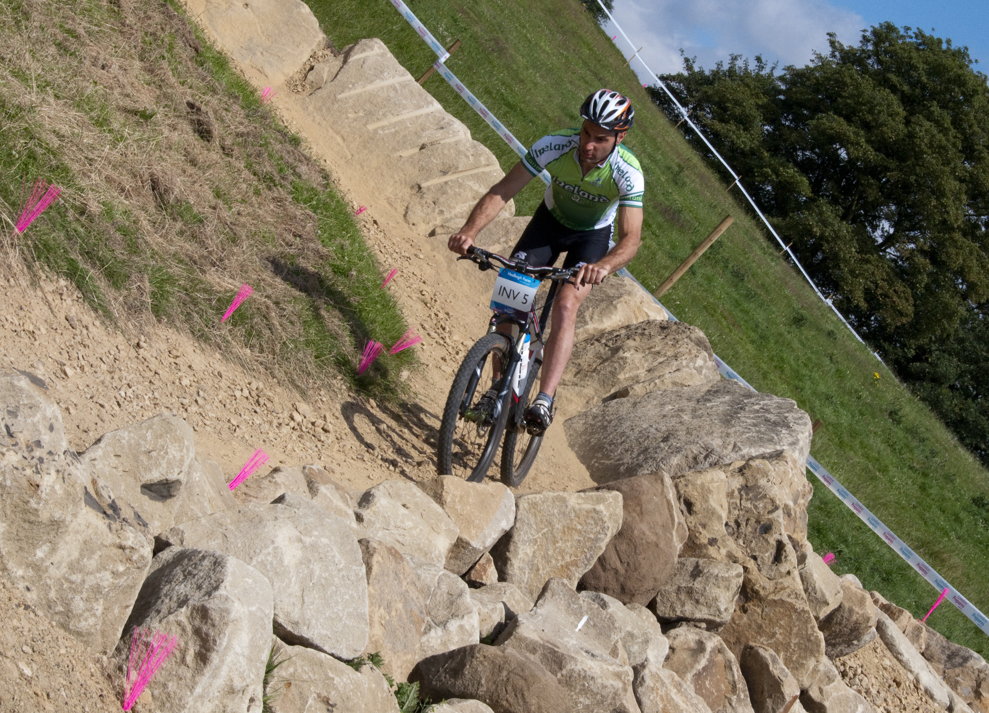 On the 2012 Olympic Mountain Bike course